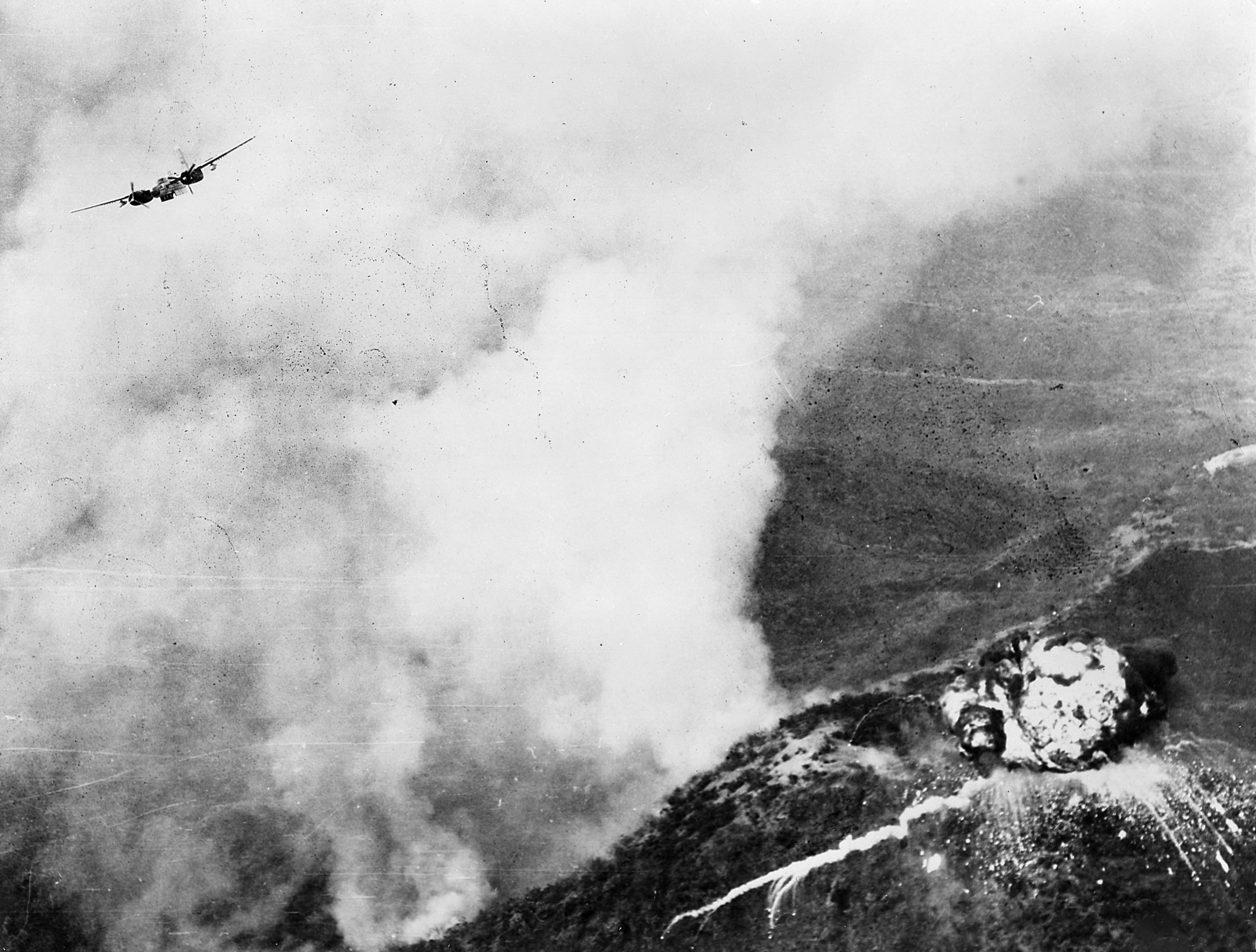 A USAF Douglas B-26B Invader of the 452nd Bombardment Wing bombing a target with napalm in North Korea, May 1951. Original caption: "Flames of destruction eat through a concentration of enemy troops on this ridge as the Fifth Air Force B-26 Invader bomber of the 452nd Bombardment Wing pulls away, bomb-bay doors still open, after loosing napalm (jellied gasoline) bombs on the area. Continued bombing of tactical targets such as these in support of United Nations forces is depriving the Communists of sorely needed war equipment in their spring offensive., ca. 05/1951"